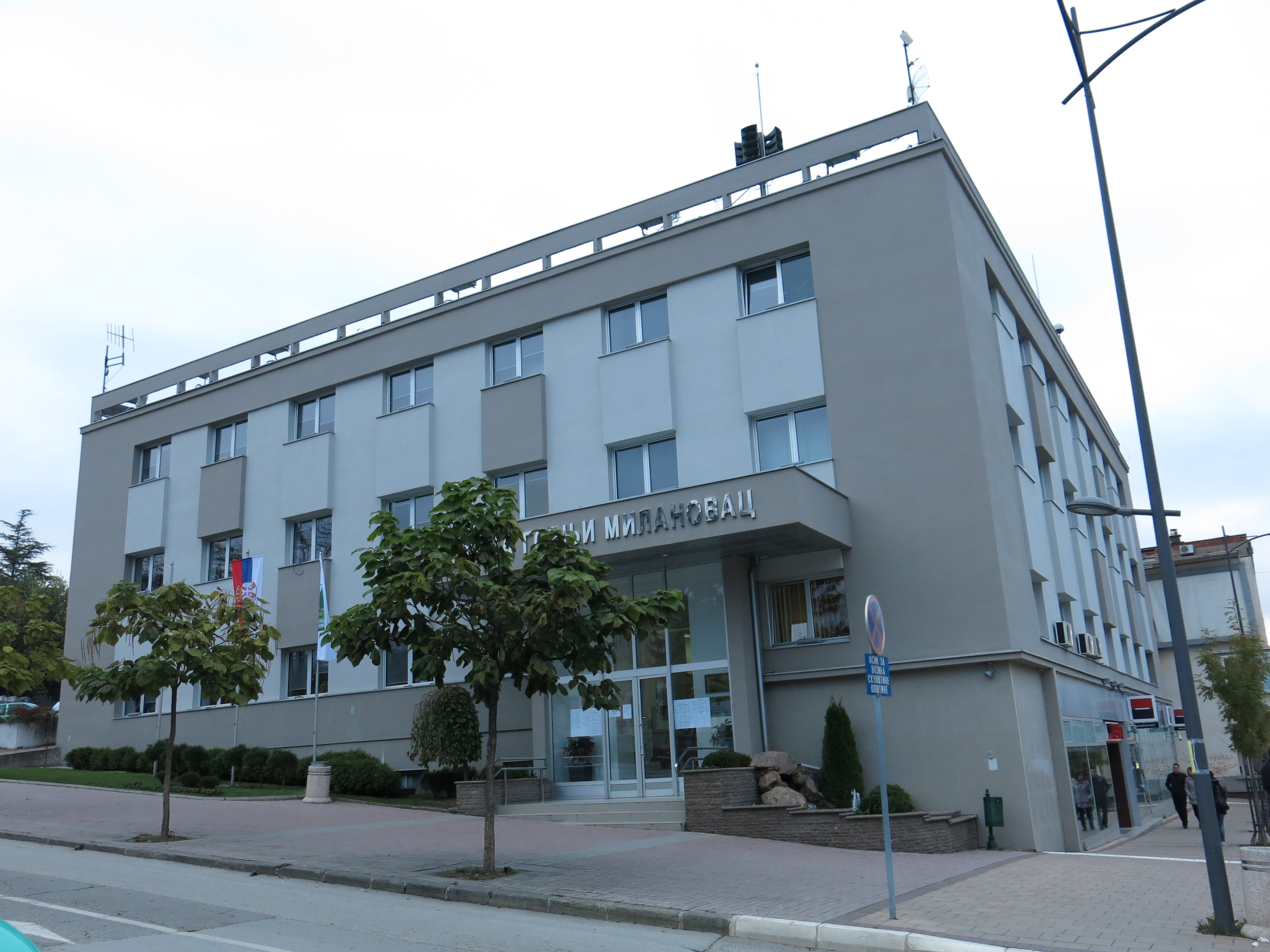 Gornji Milanovac, Municipality of Gornji Milanovac building